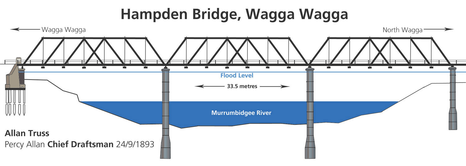 Hampden Bridge, Wagga Wagga design (Since most of the designs are in books that are not copyright free I have done a rough design)